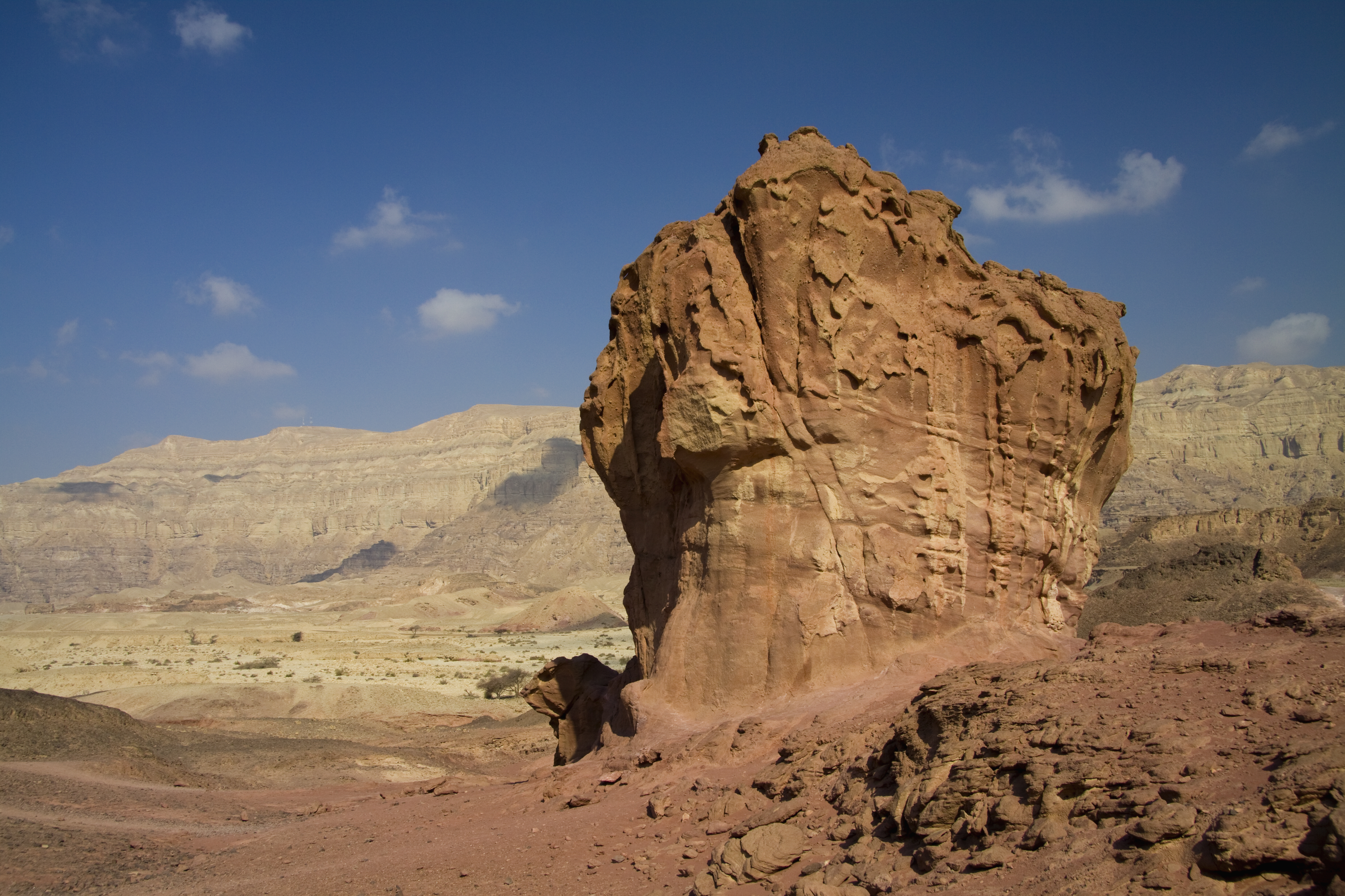 Mushroom and a half, result of wind erosion, in Timna Park, Southern Israel.